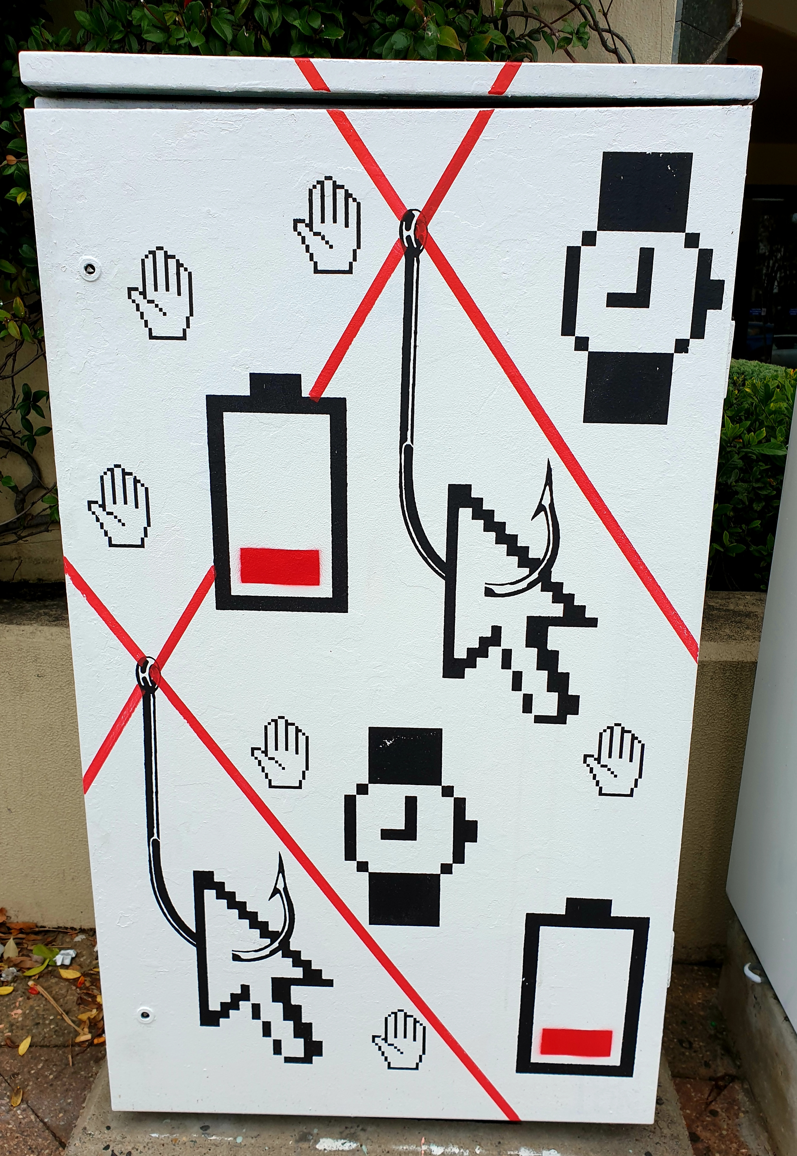 Artistic representation of 'clickbait', Bondi Junction, New South Wales, Australia.